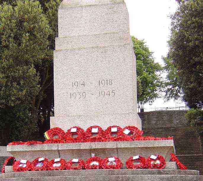 Image of the Great Cross of Sacrifice's base, with wreaths laid during the Commemoration Ceremony to mark the 90th anniversary of the Battle of the Somme at the Irish National War Memorial Gardens on 1 July 2006.